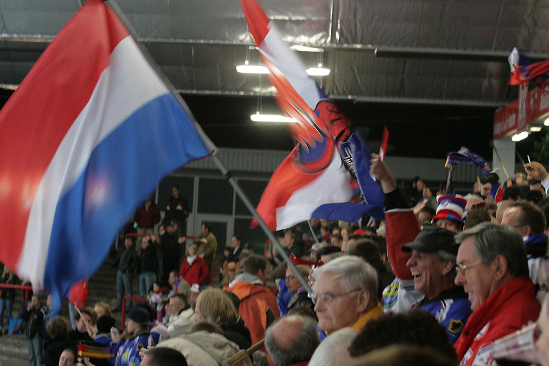 Fans of the hockeyclub EHC Dortmund